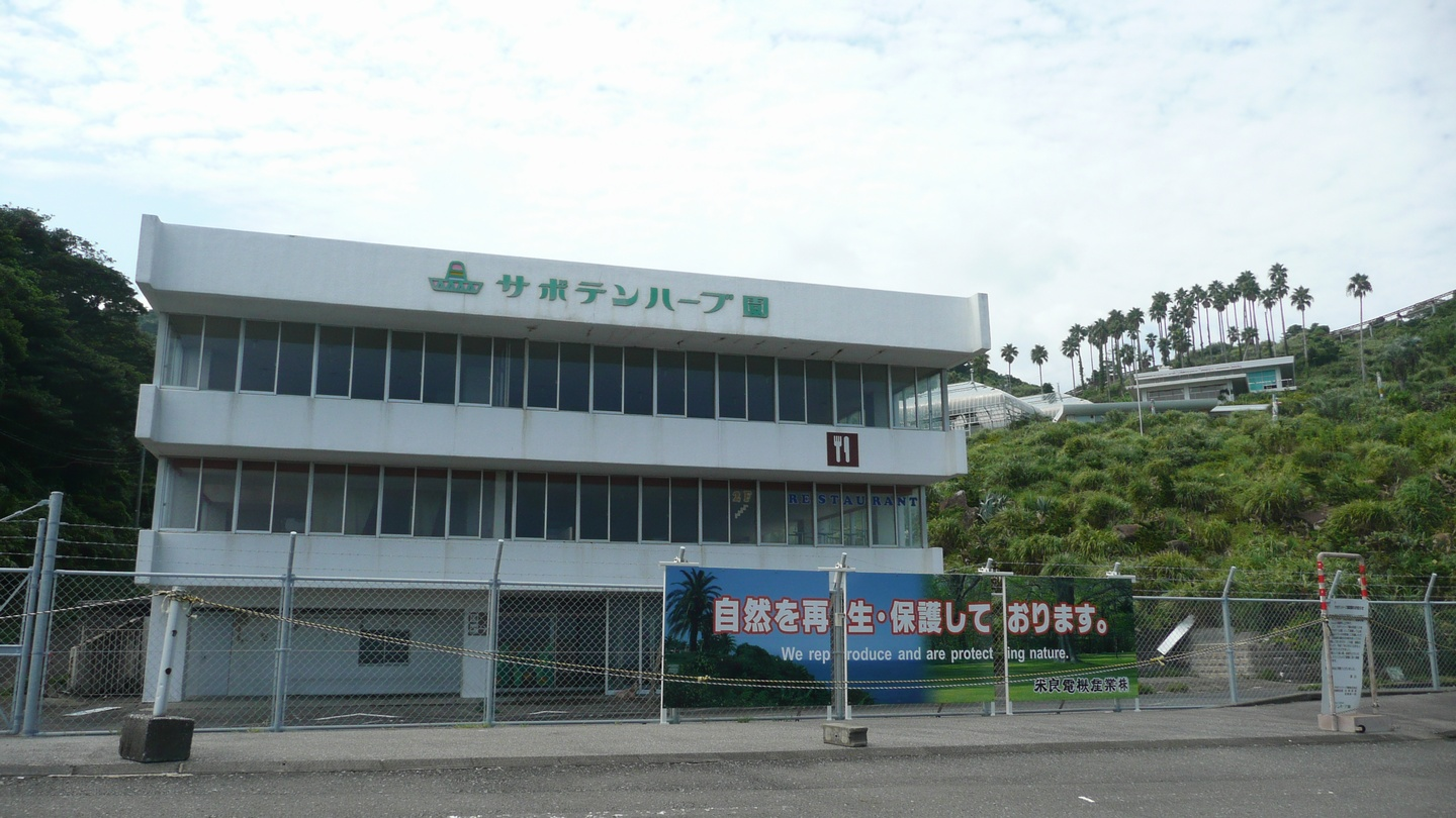 Cactuses and Herb Park (Saboten Hābu en - Nichinan, Miyazaki, Japan)